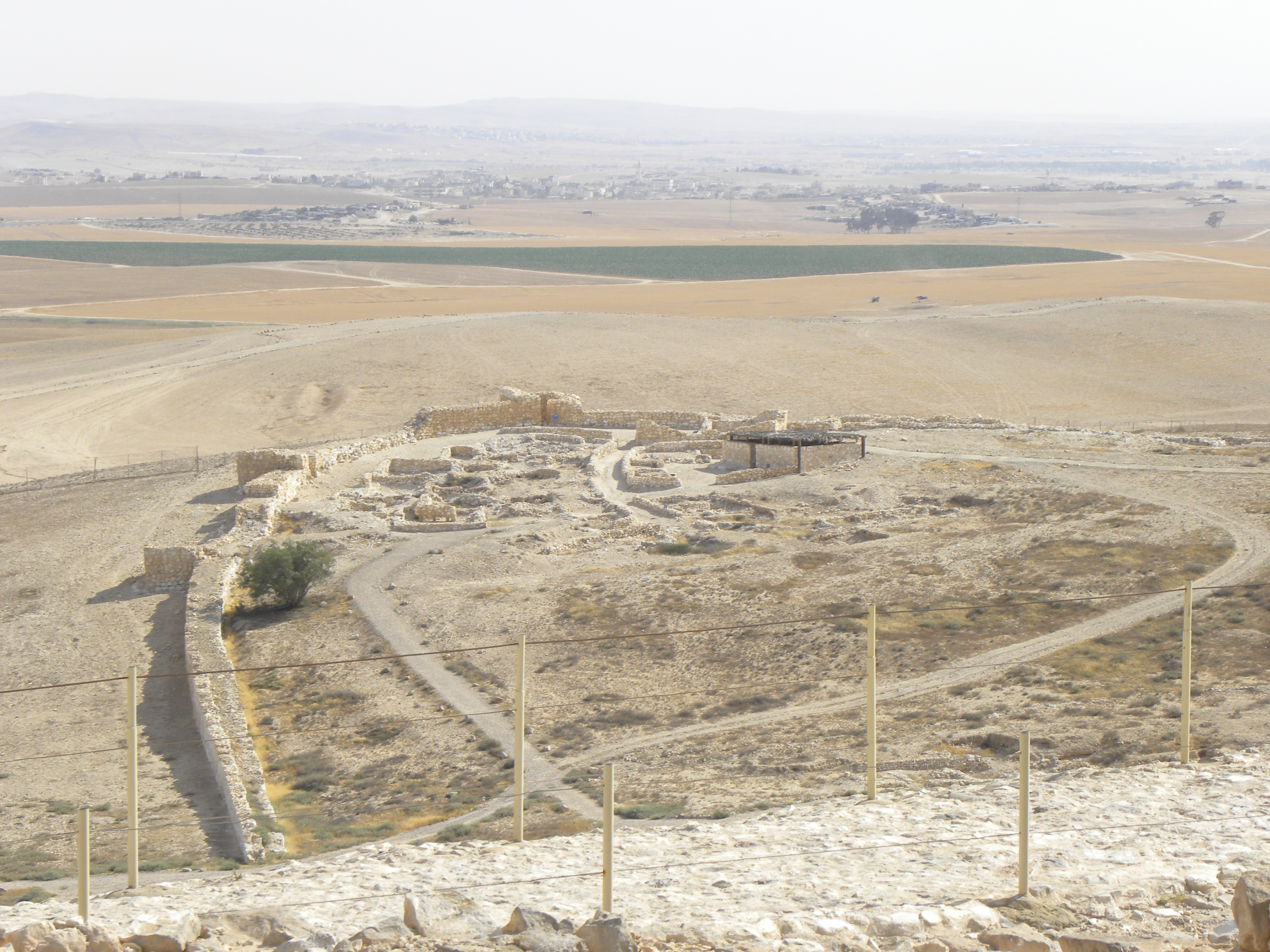 The city of Arad flourished in the Early Bronze Age (3150-2200 BCE). The site was abandoned for some centuries before the re-establishment of an Israelite fort on the summit of the tel. The whole lower city, though, was not reinhabited during Israelite times. Tel Arad